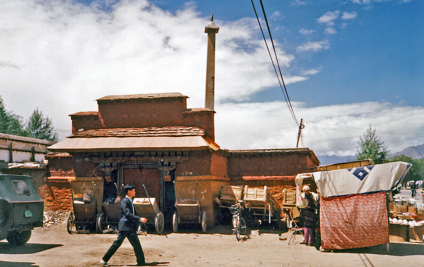 I took this photo myself in 1993 in Lhasa. John Hill 01:36, 16 August 2007 (UTC)